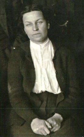 Anastasia Alekseevna Bitsenko, the only female member of the Soviet delegation to the Treaty of Brest-Litovsk, 1917-1918